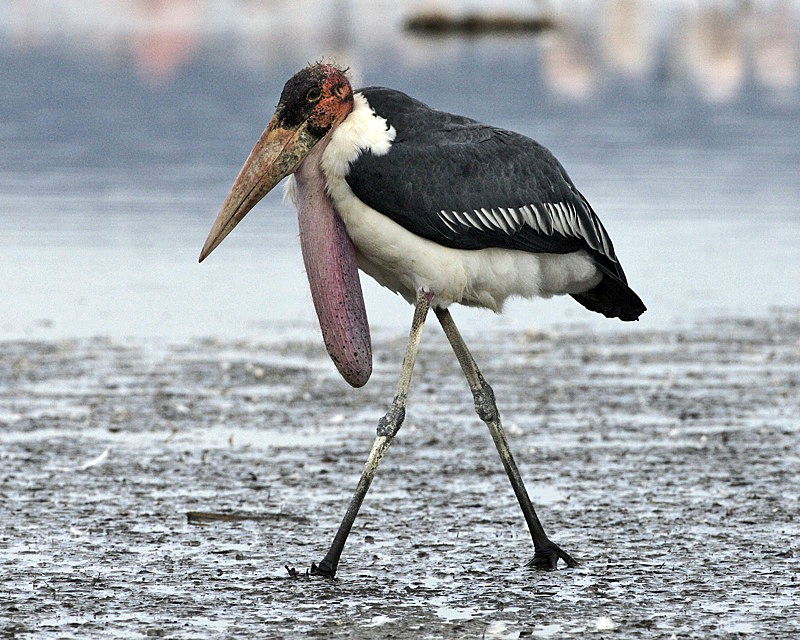 Marabou Stork - pouch expanded Leptoptilos crumeniferus Nakuru, Kenya August 30, 2008 690V2393